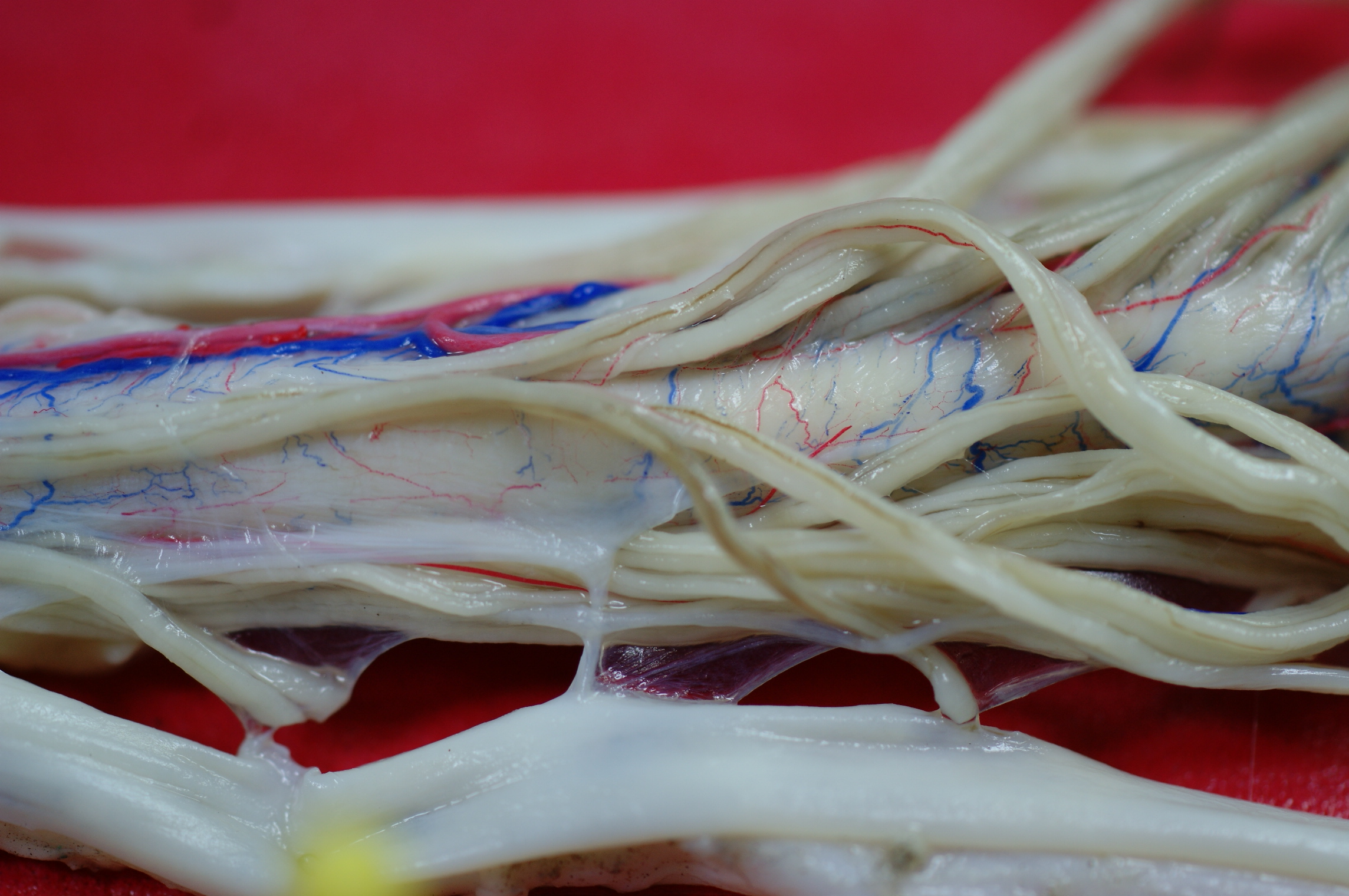 A Great Posterior Radiculomedullary Artery can be seen as the rootlets are reclined